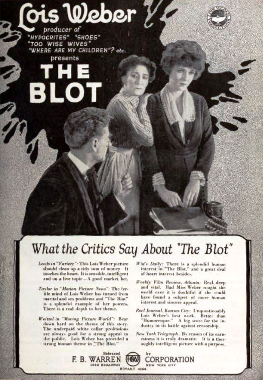 Advertisement for the American drama film The Blot (1921) with an unidentified actor, Margaret McWade, and Claire Windsor, on page 15 of the September 10, 1921 Exhibitors Herald.